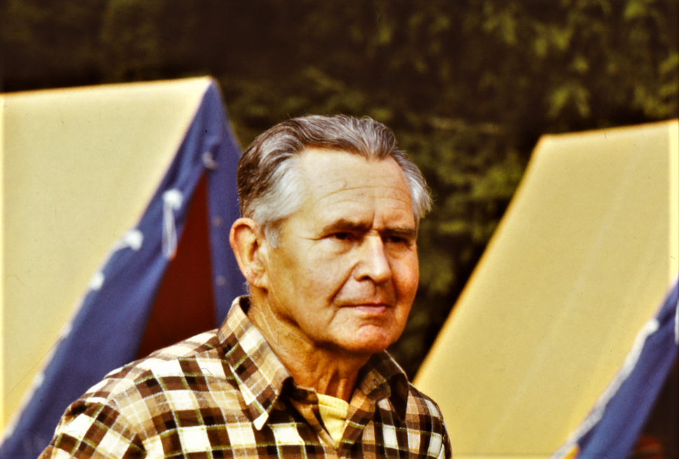 Jaroslav Foglar, Czech writer and scout leader